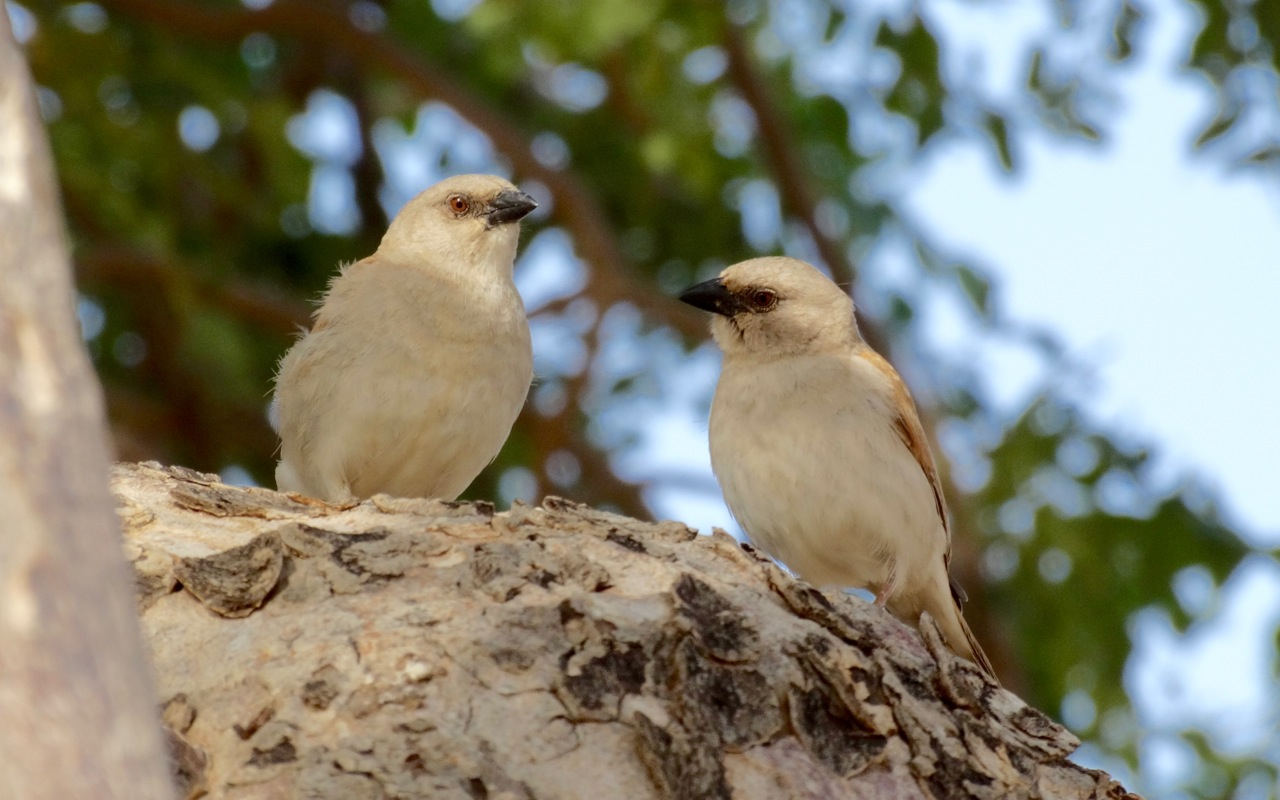 Juvenile Passer griseus on Sclerocarya birrea photographed near Belbedji, Zinder Region, Niger